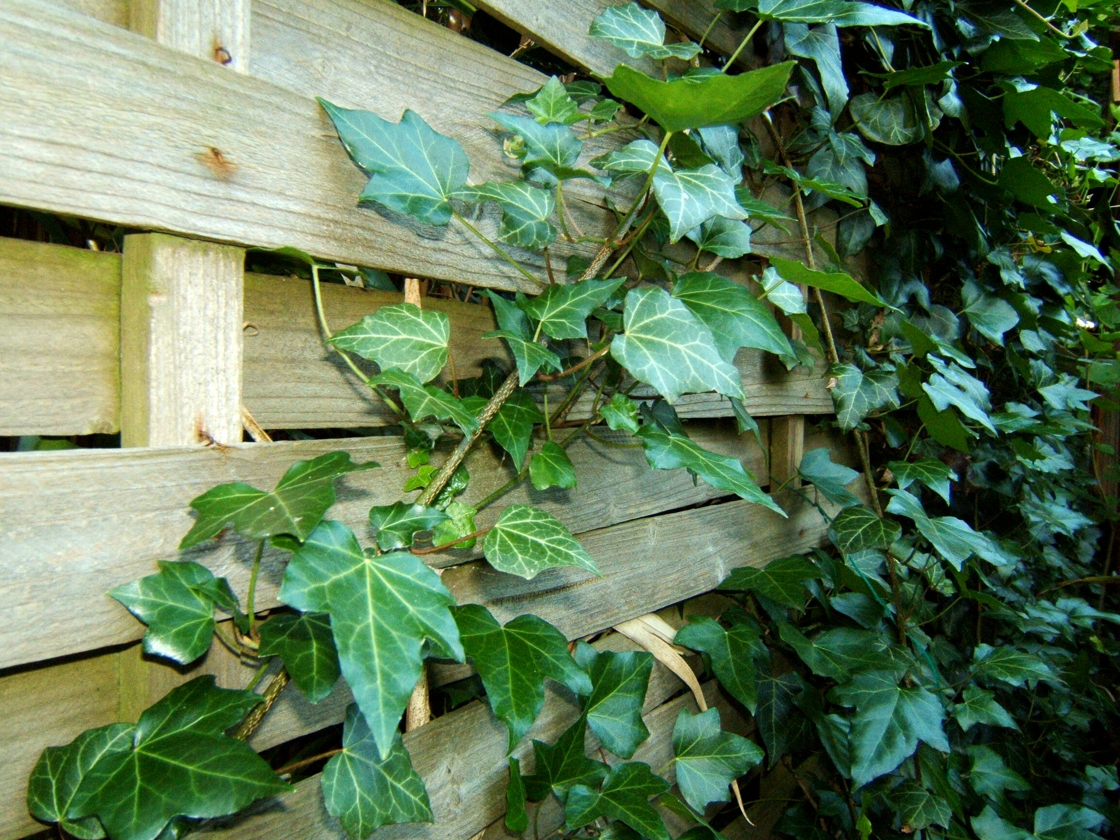 Photographed on 27 June 2005, 20.57